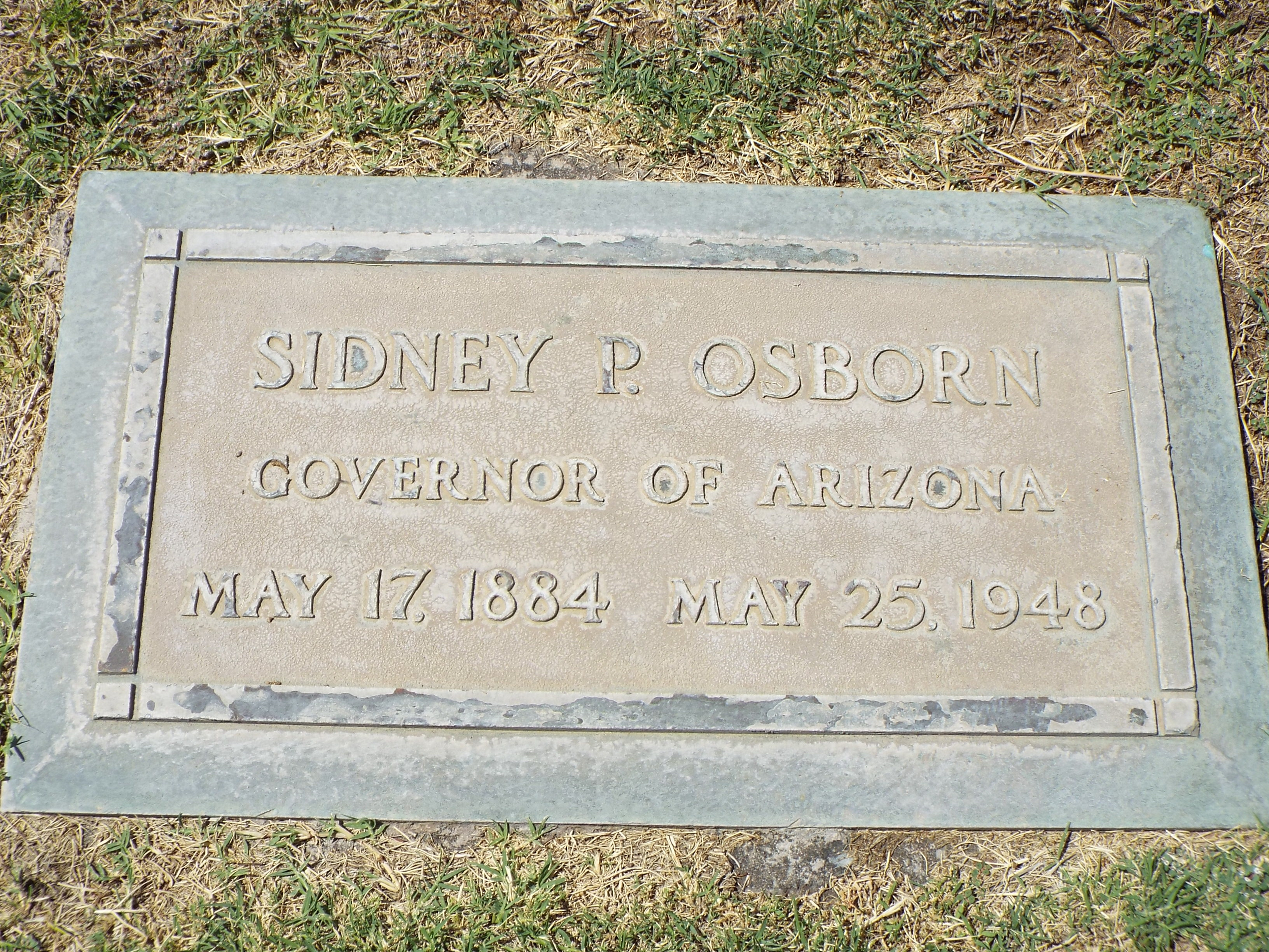 Sidney Preston Osborn (May 17, 1884-May 25, 1948). Osborn was the first Secretary of State of Arizona, and later the seventh Governor of Arizona and is, as of 2015, the only governor of Arizona to be elected to four consecutive terms (Governors of Arizona served biennial terms with no limits up until 1968, when it was changed to serve quadrennial terms, and changed again in 1992 to a limit of two terms at a time). Osborn is also the second native-born governor of Arizona, preceded by Thomas Edward Campbell.[1]